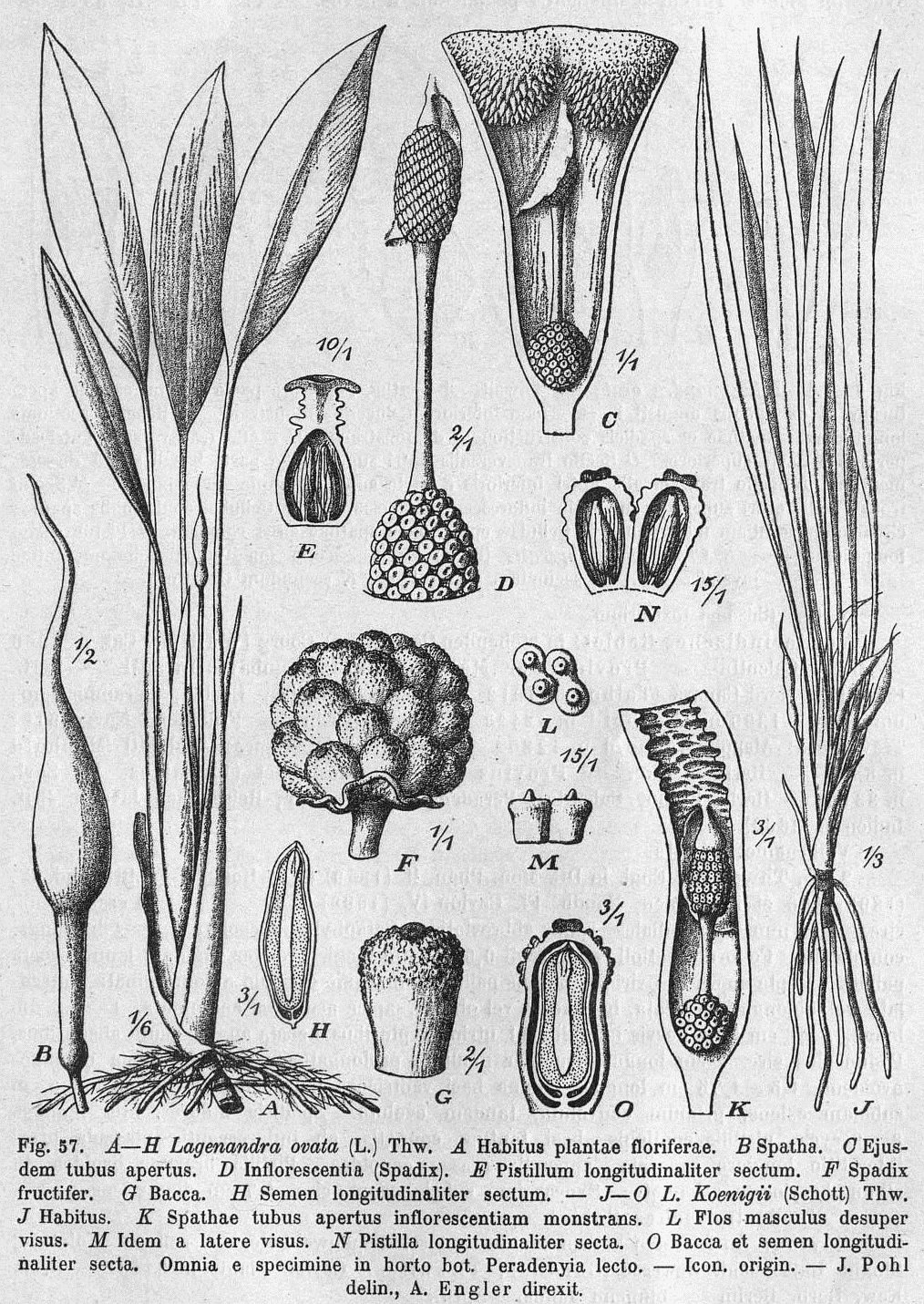 Lagenandra ovata & L. koenigii botanical drawings